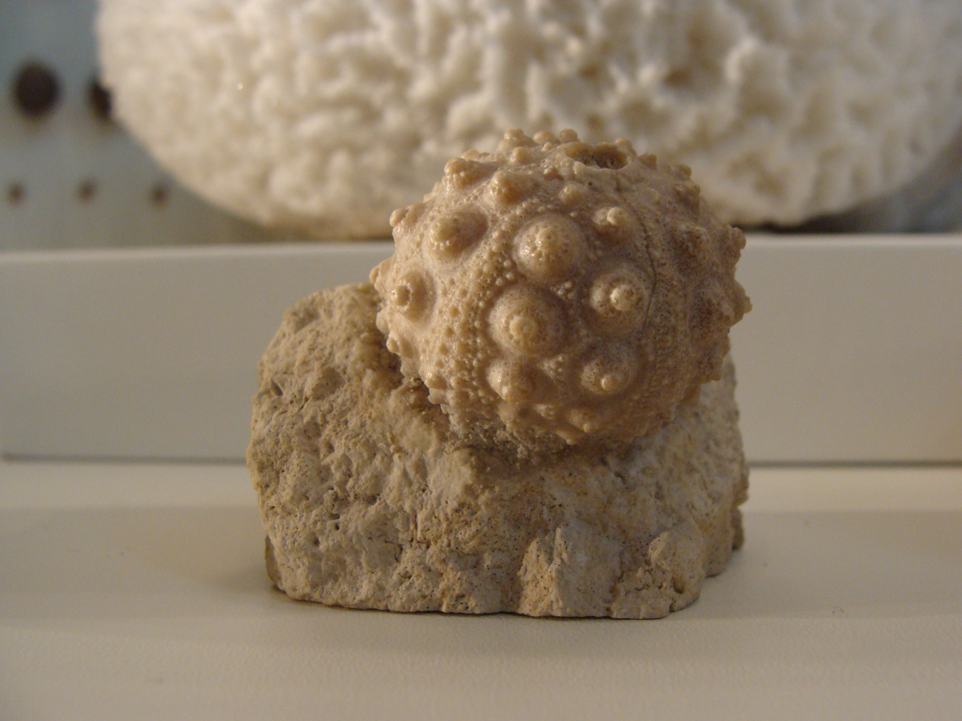 Hemicidaris intermedia fossil from France in Cosmocaixa, Barcelona. Jurassic period (155 million years ago).